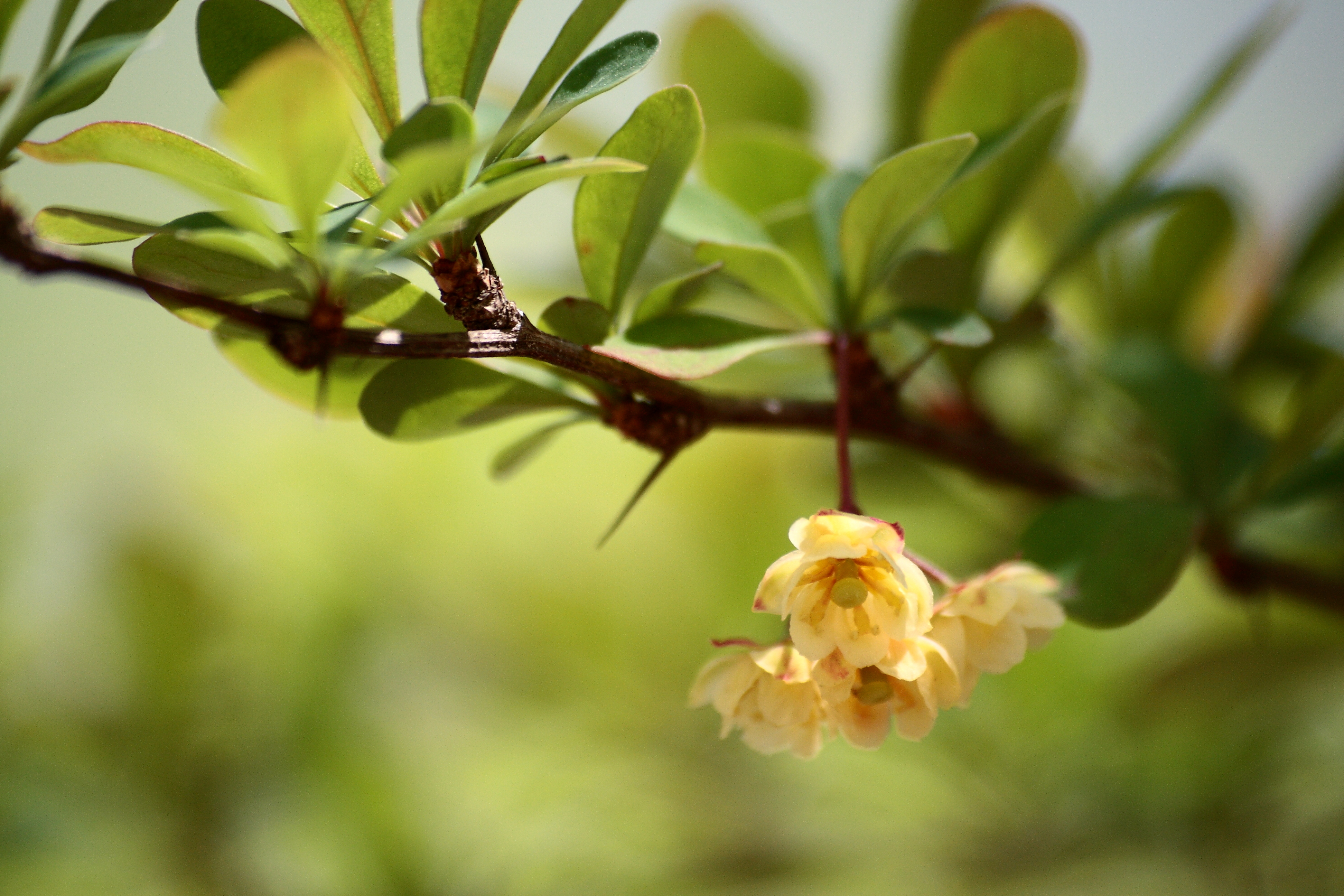 Flowers on a barberry bush in Penwood State Park